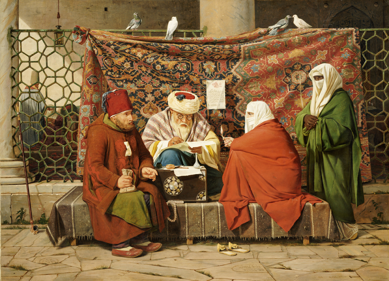 Painting by Martinus Rørbye from 1837 based on his sketches from his earlier travels. The scene is set outside the Kilic Ali Pasha Mosque.